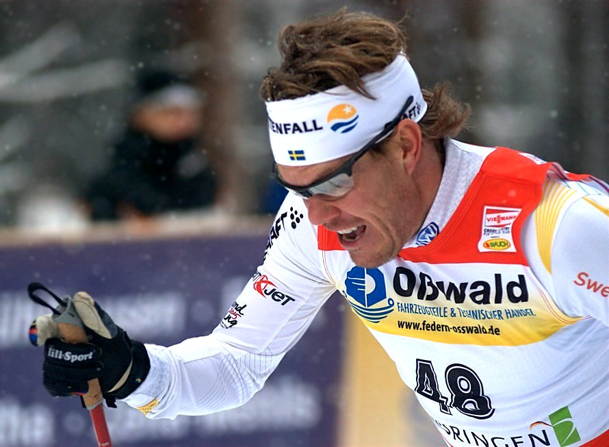 Mathias Fredriksson at the Tour de Ski 2010 in Oberhof